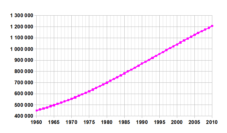 India's population (1960-2010). From UN estimates, World Population Prospects: The 2012 RevisionY-axis : Number of inhabitants in thousands.